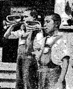 Hong Kong kids celebrating children's day on 4 Apr, 1939